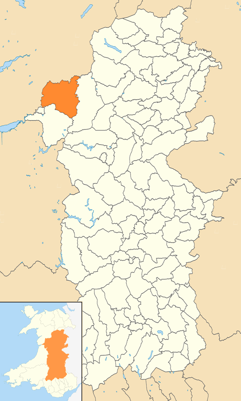 Location map of the community (civil parish) of Glantwymyn in the north of Powys, Wales